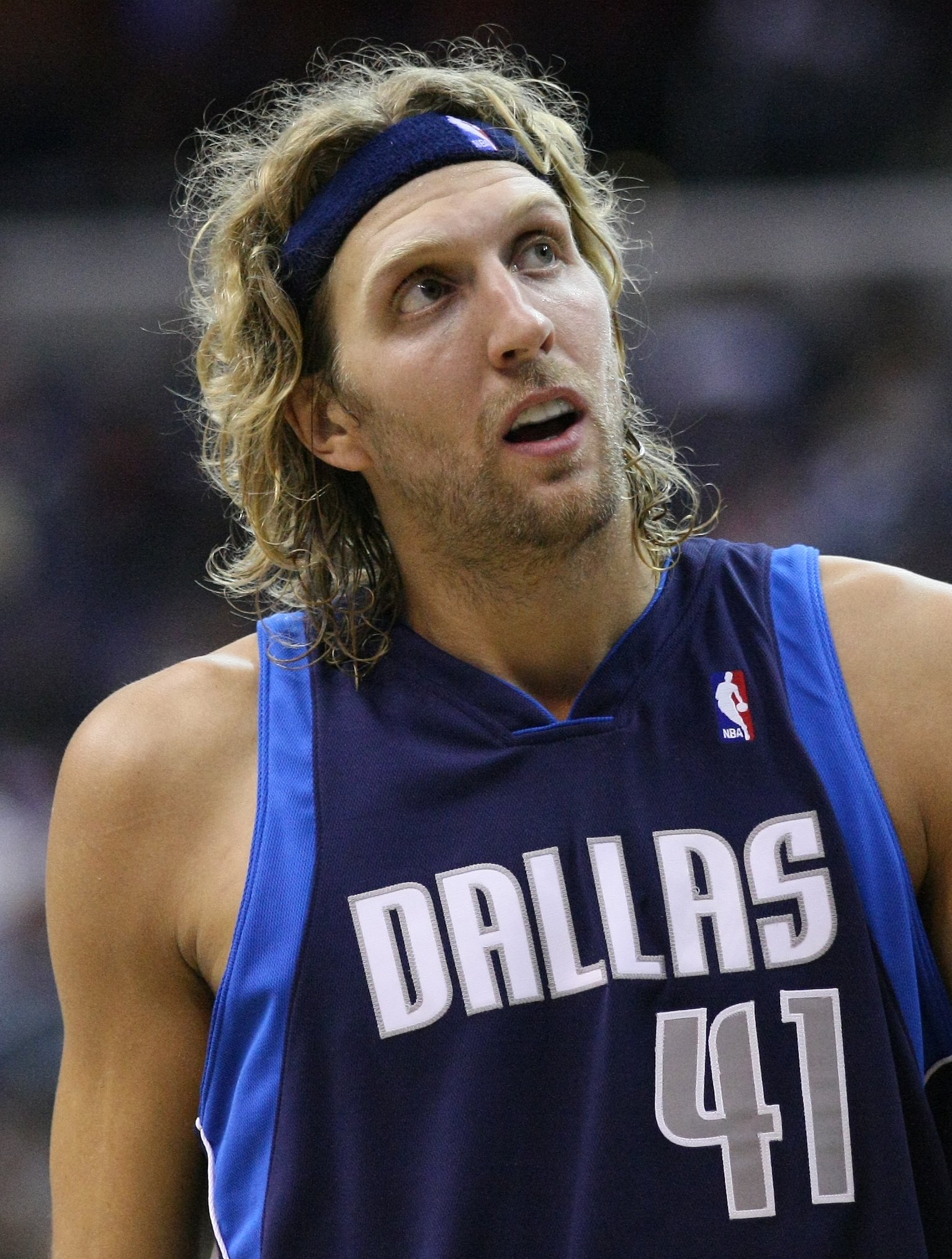 Dirk Nowitzki - Washington Wizards v/s Dallas Mavericks October 9, 2009 at Verizon Center in Washington, D.C.